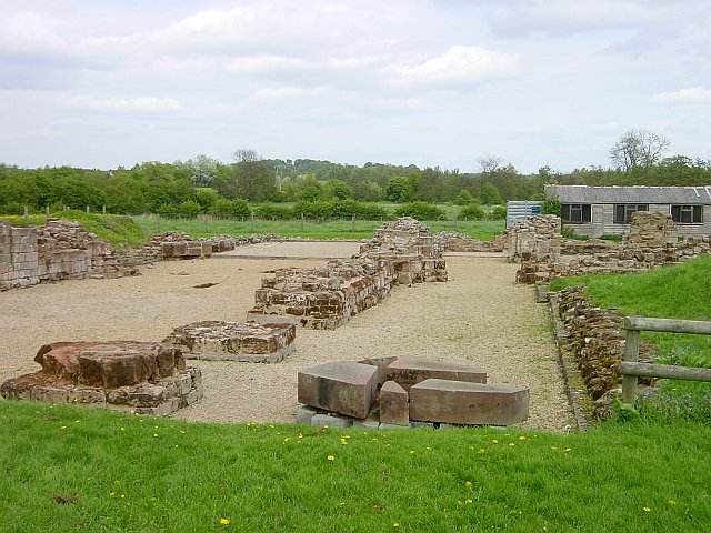 Archeological excavation of Bordesley Abbey.